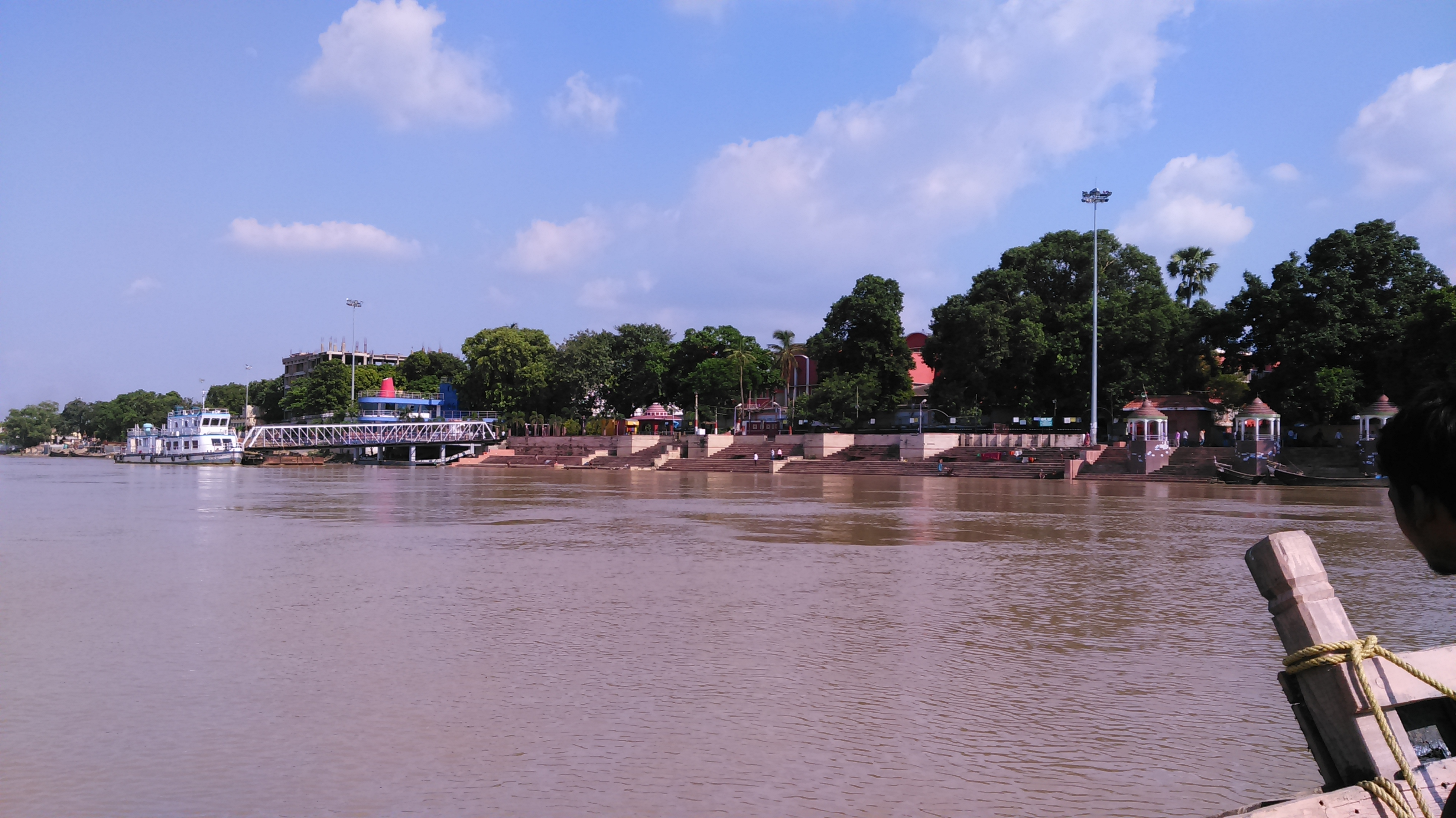 View of bank of River Ganga from a boat at National Institute of Technology Patna.